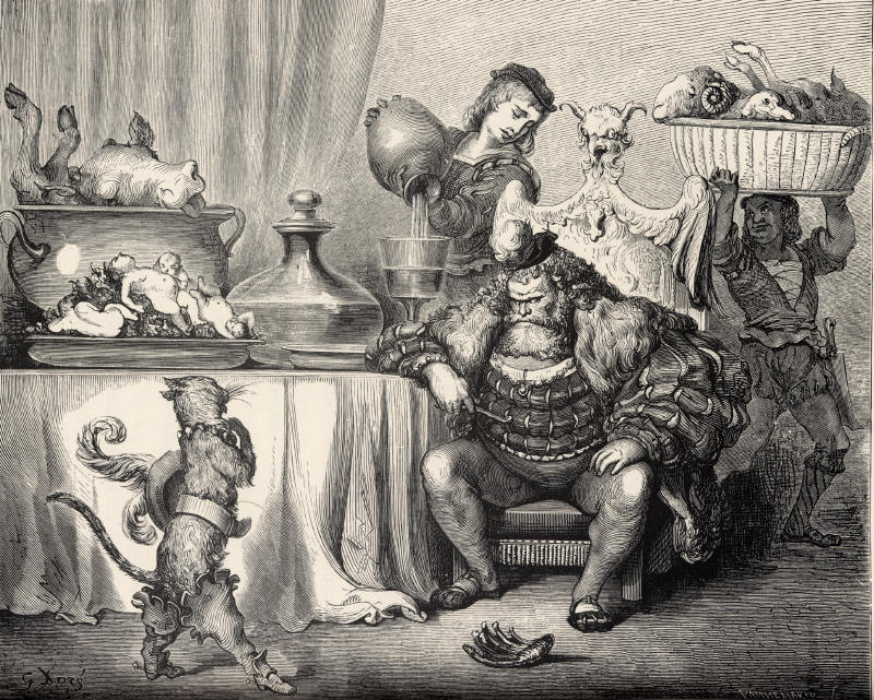 Untitled illustration from "Puss in Boots" from the book Les Contes de Perrault, an edition of Charles Perrault's fairy tales illustrated by Gustave Doré, originally published in 1862 (source). Link to the page with the illustration in an online eBook edition of the original book.